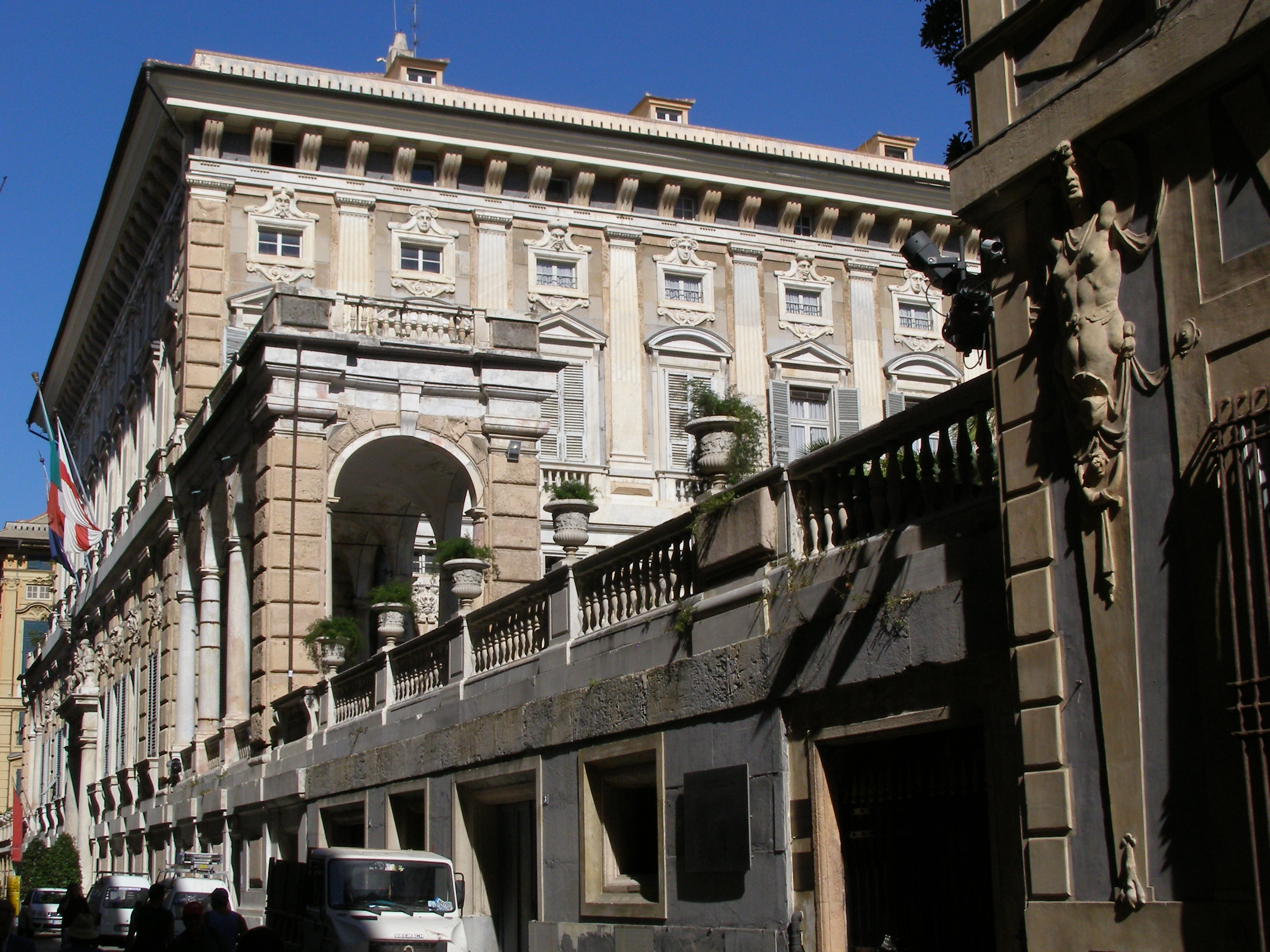 Genoa - Palazzo Doria Tursi